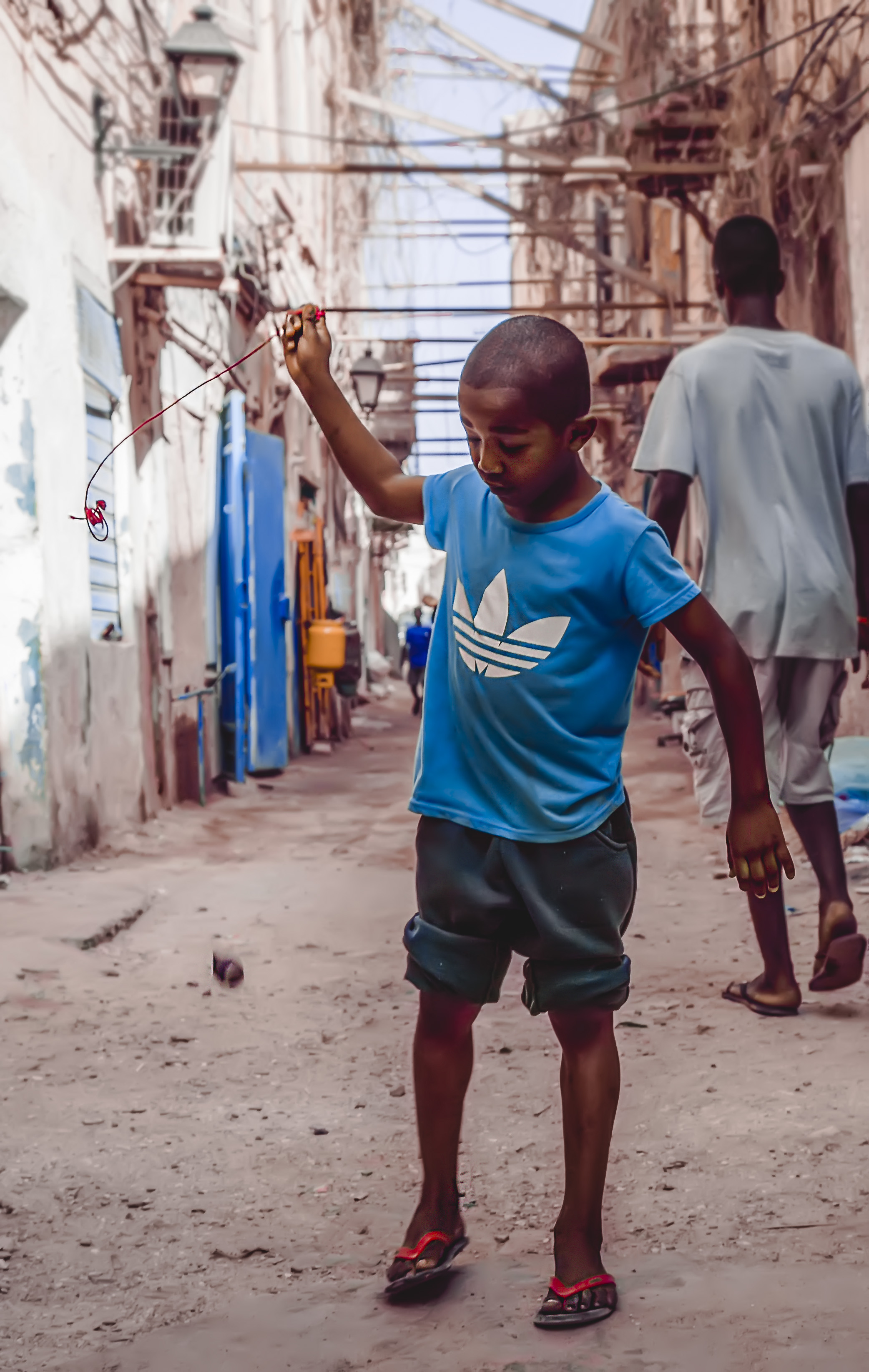 This is an image with the theme "Play" from: Libyan Arab Jamahiriya